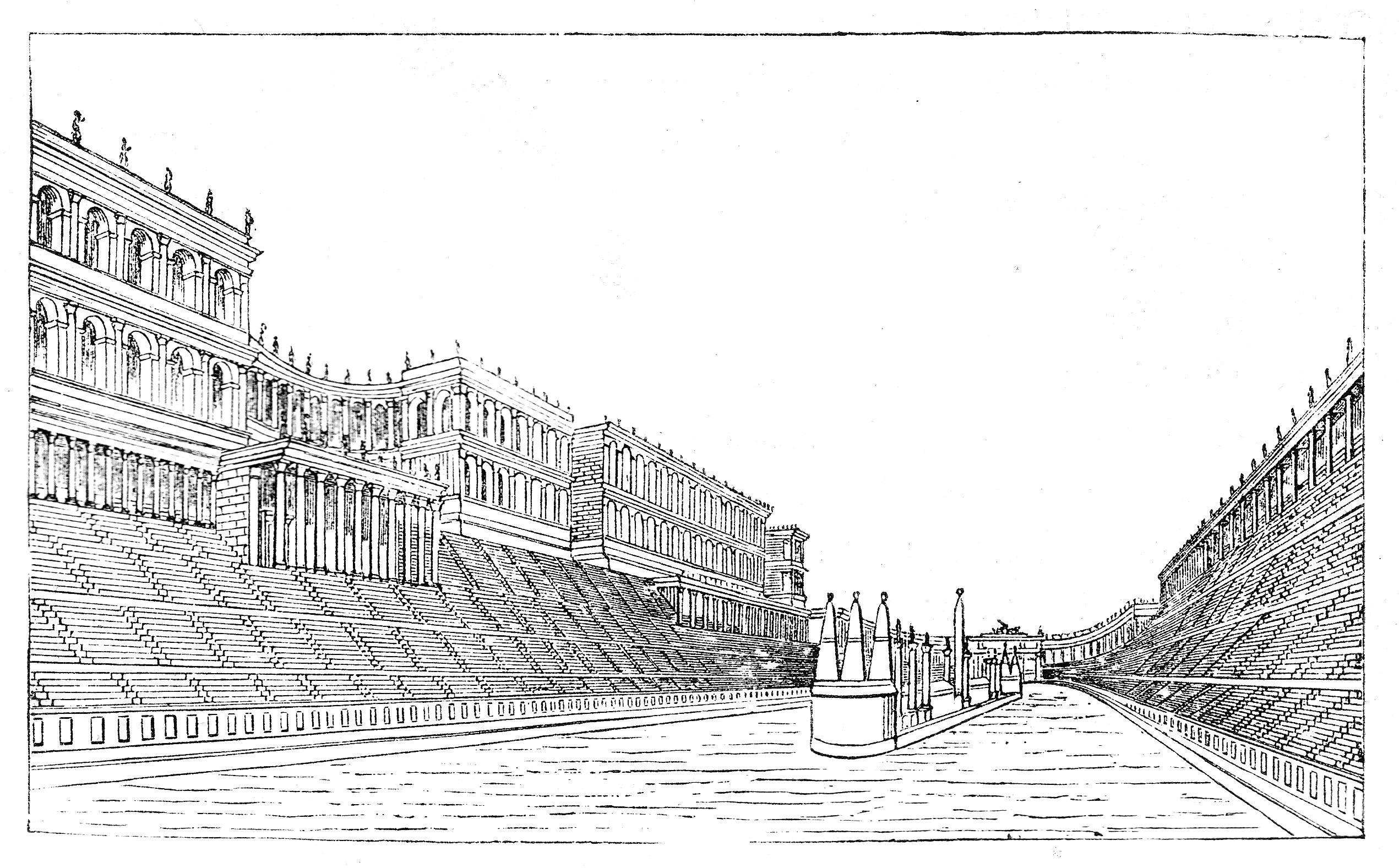 Illustration from "Illustrerad verldshistoria utgifven av E. Wallis. volume II": Circus Maximus.